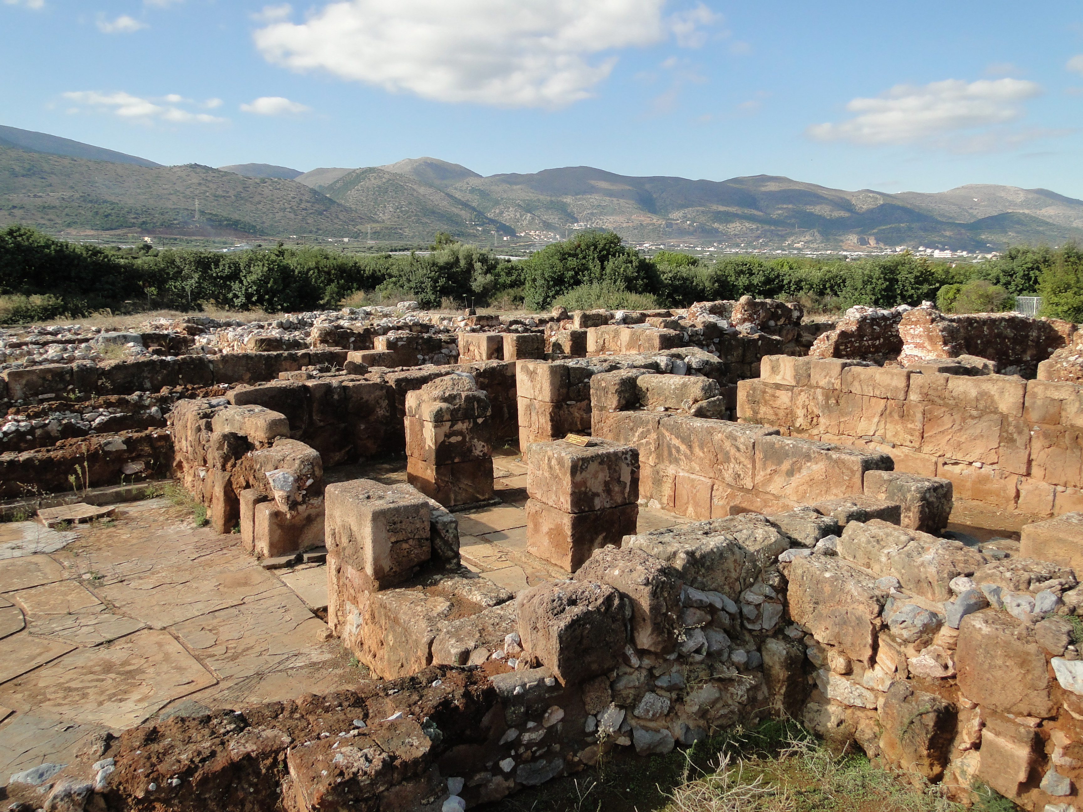 The Pillar Crypt in the Palace of Malia, Crete, Greece